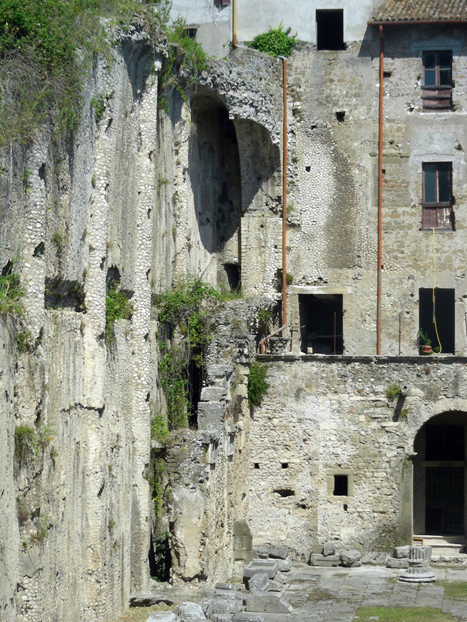 Italy, Latium, Palestrina, remains of roman basilica (interior), view from above the room with the Fishes mosaic